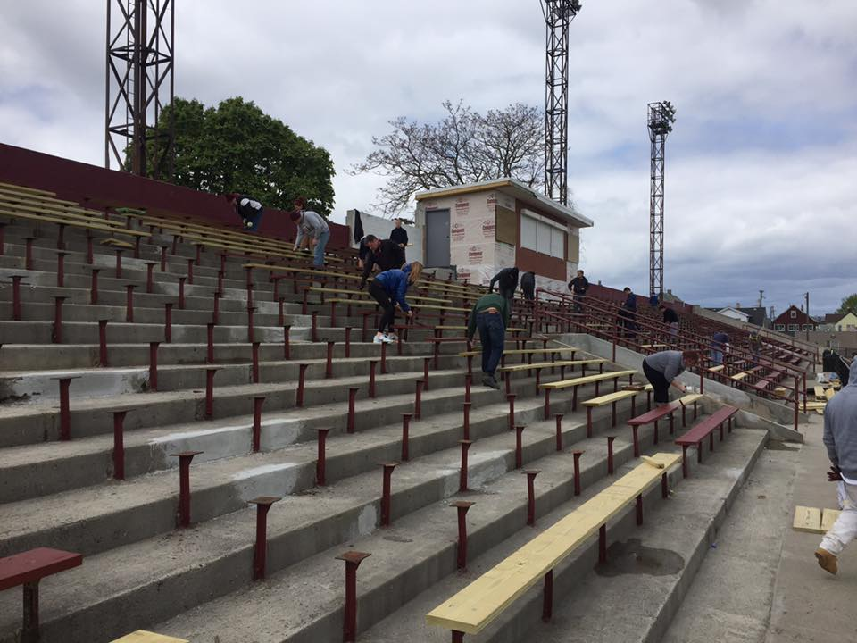 Supporters restoring the bleachers at Keyworth Stadium